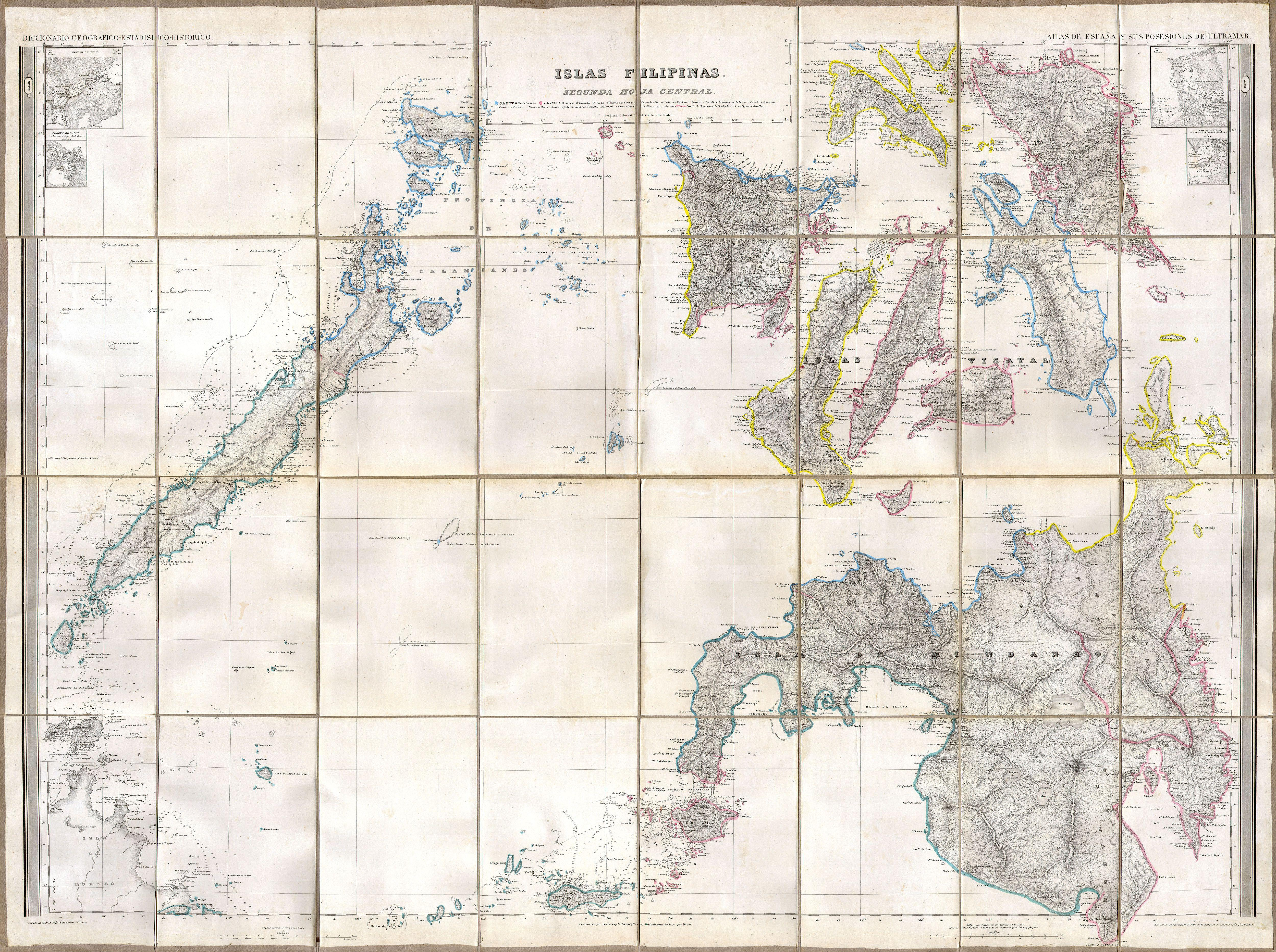 This magnificent 1852 hand colored case map of the Philippines was issued by Dr. Morata and Francisco Coello of Madrid. In 32 folding sections mounted onto linen. Covers the Philippines and extends south from Manila Bay to the Island of Mindano and west to the Island of Palawan or Paragua. Features numerous insets depicting important nautical passages and ports. Perhaps the finest and most detailed 19th century map of the Philippines ever published. Comes with original linen slip case and publisher’s label. Note: This map was part of three map issue covering the entirety of the Philippines.